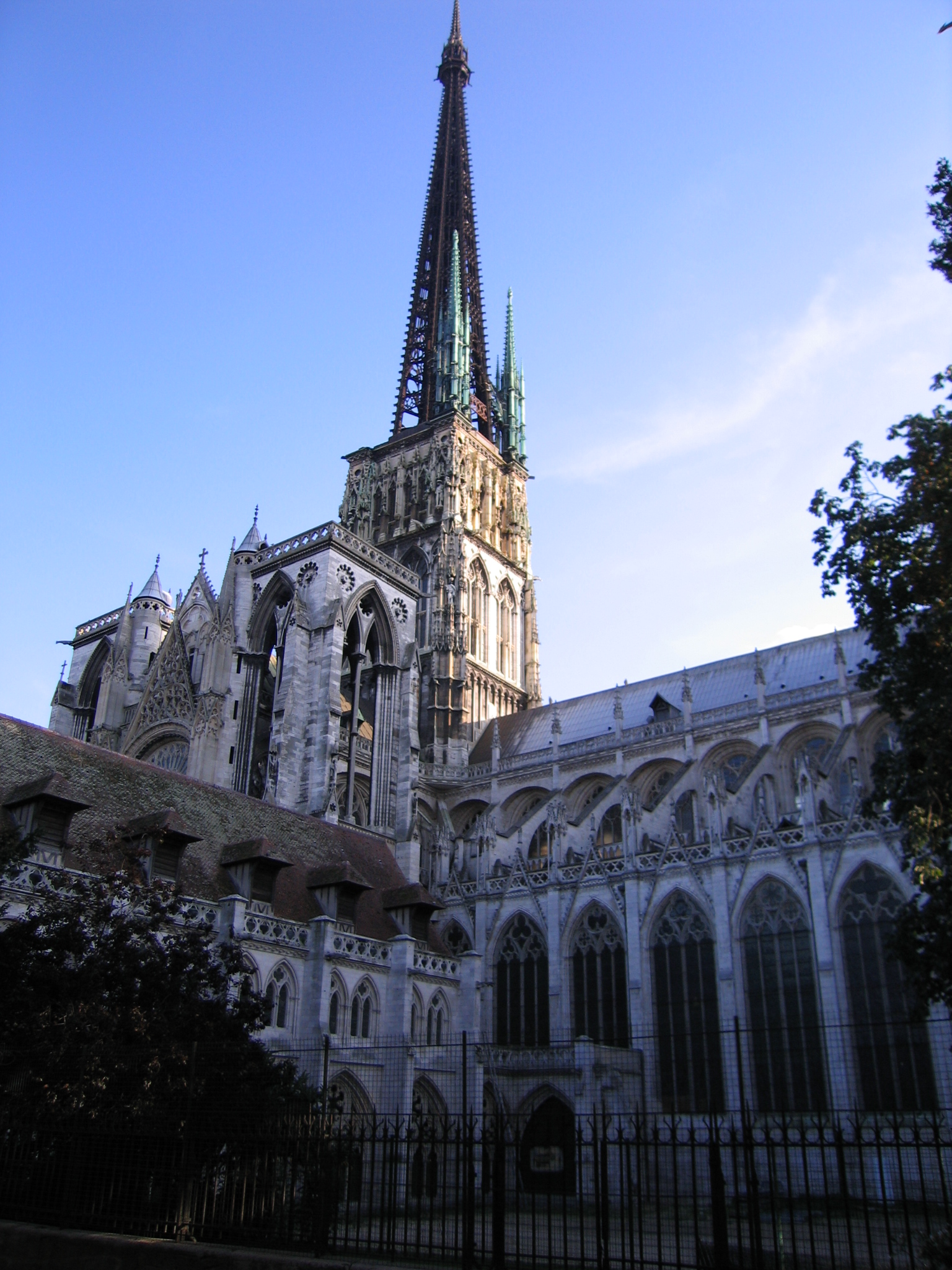 Cathedral of Rouen